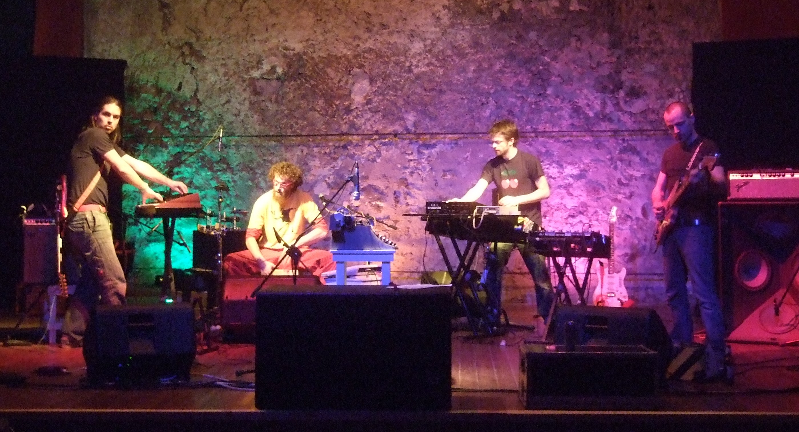 The italian Eterea Postbong Band playing at the Lomax, Catania